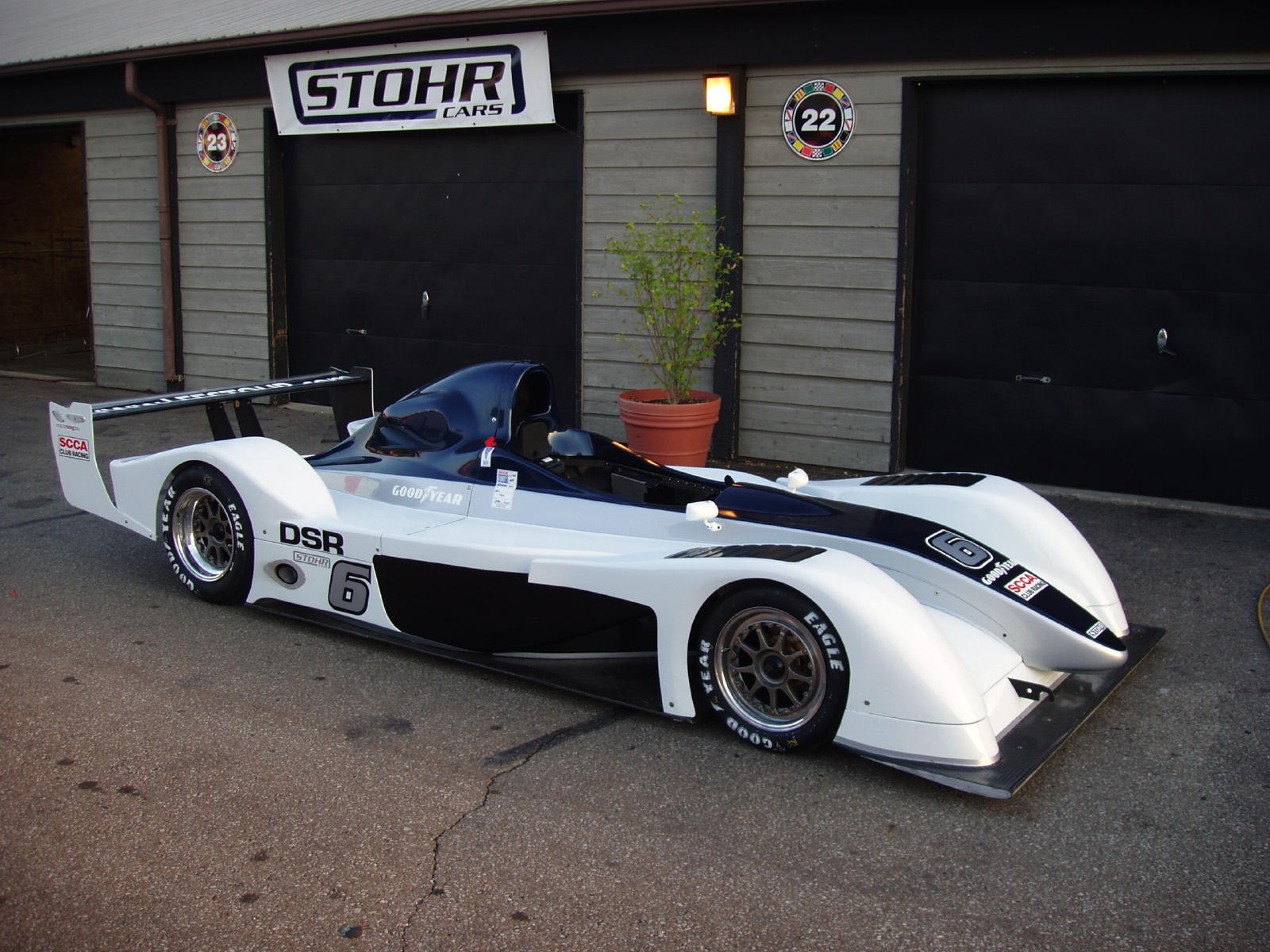 Stohr WF1. Winner of the 2005 SCCA National Championship for DSR.